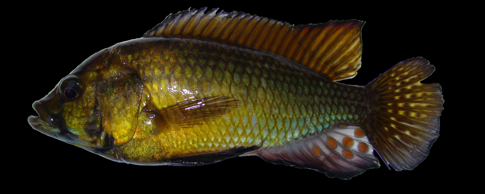 Adult ♂ of Astatoreochromis alluaudi Pellegrin, 1904 caught on 15 Dec. 2012 at Kumana village, Nyagisozi zone, Lake Rweru, Upper Akagera (Rwanda), 100,4 mm SL.